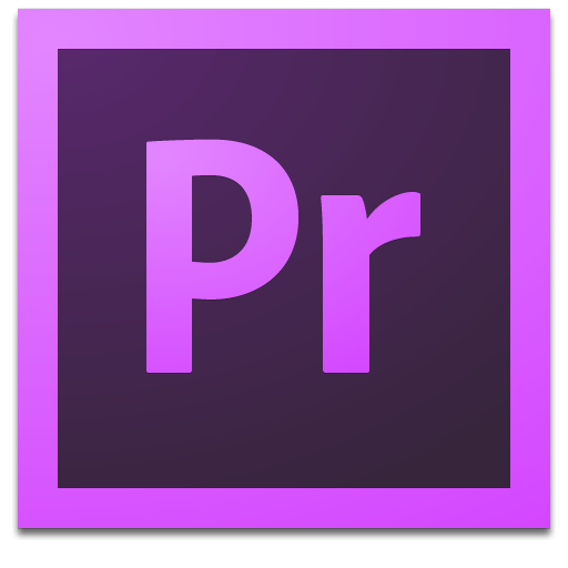 Logo of Adobe Premiere Pro CS6.